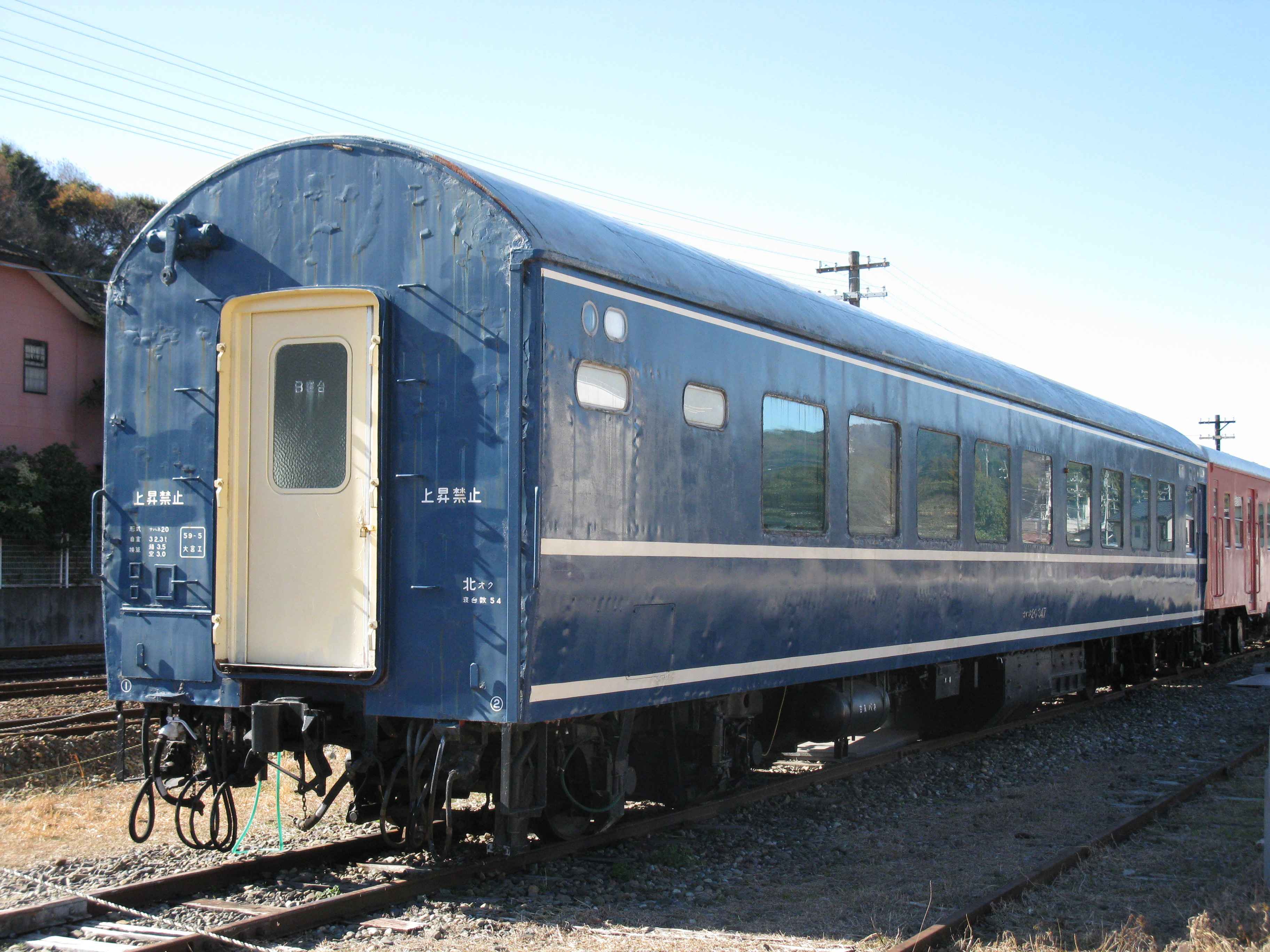 JNR 20 series passenger cars(Nahane20 347, Stored at Tenryu-Futamata Station)